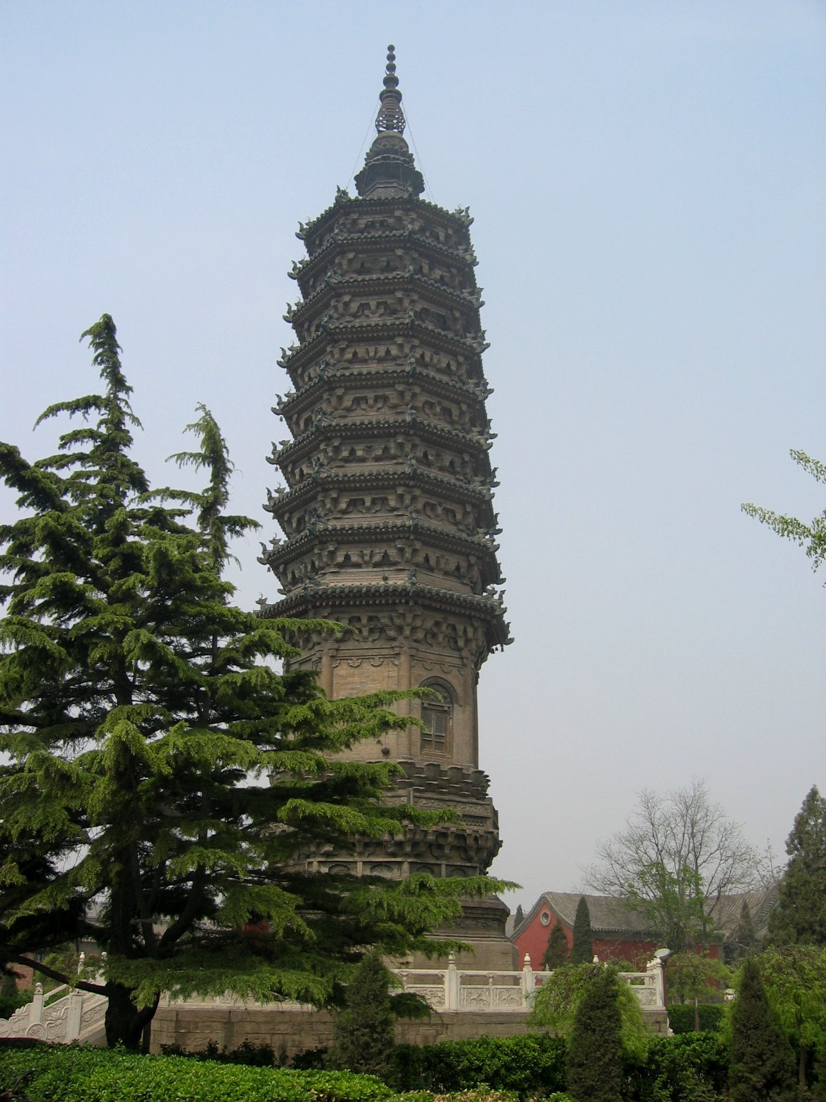 Photograph of the Chengling Pagoda, Zhengding, Hebei Province, China. The pagoda was built between the years 1161 and 1189 AD, during the Jin Dynasty over northern China. Photograph taken on April 18, 2005 by Rolf Müller.